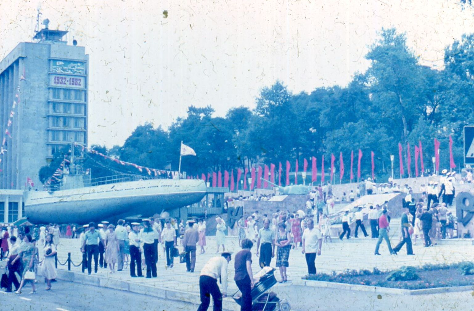 S-56 Submarine Monument (Vladivostok)